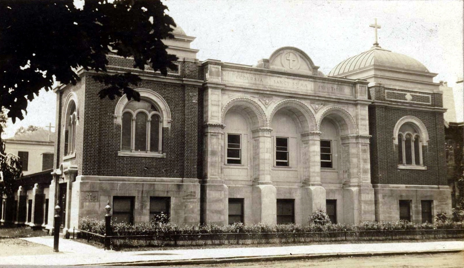 Hartford Holy Trinity Church First Stage Building 1915